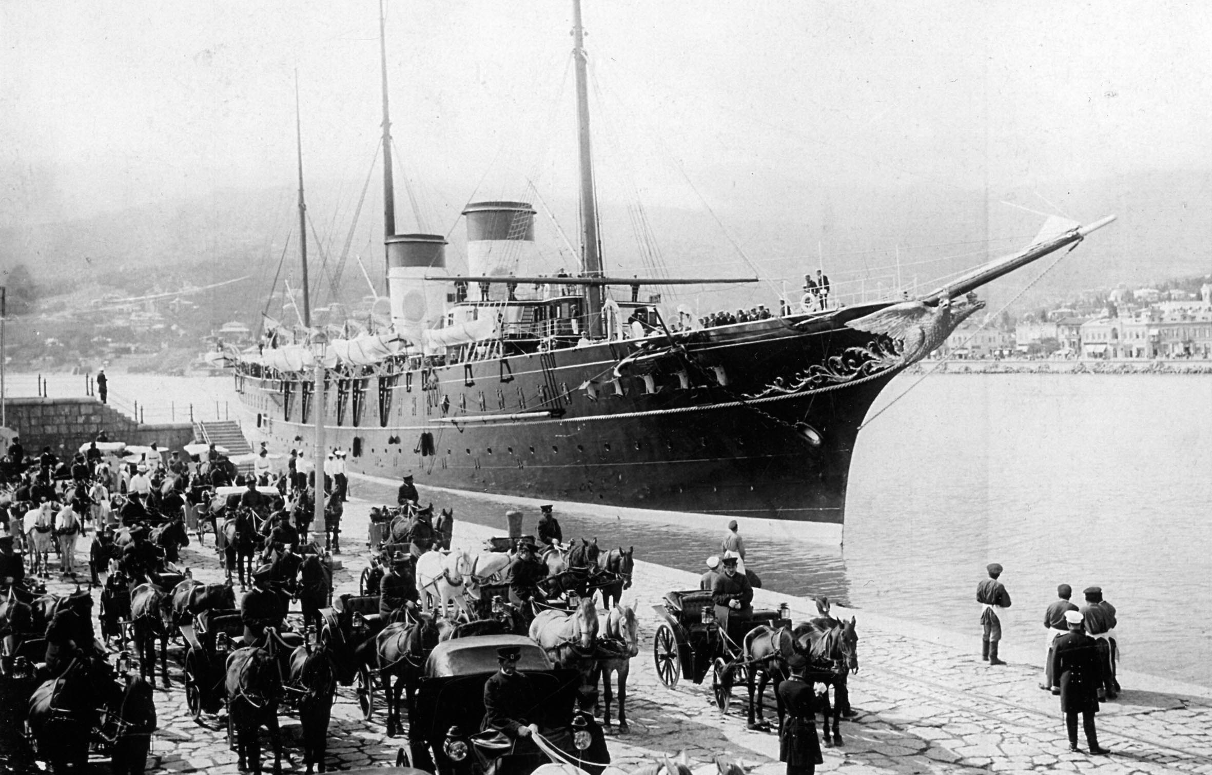 Imperial Russian imperial yacht Shtandart in Yalta.